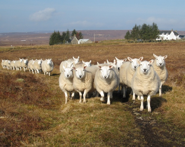 North Country Cheviots Probably the toughest of all the sheep breeds, hence their popularity in this part of the world.